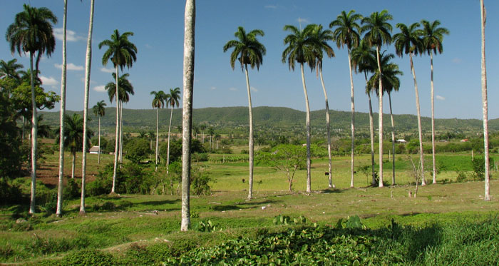 my own